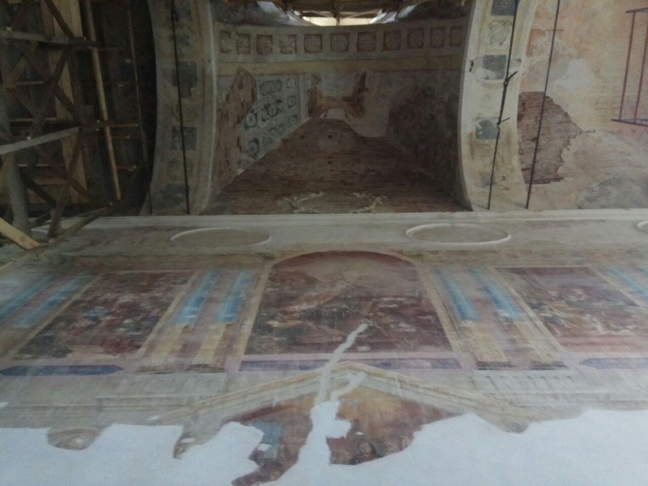 Росписи Воскресенского храма